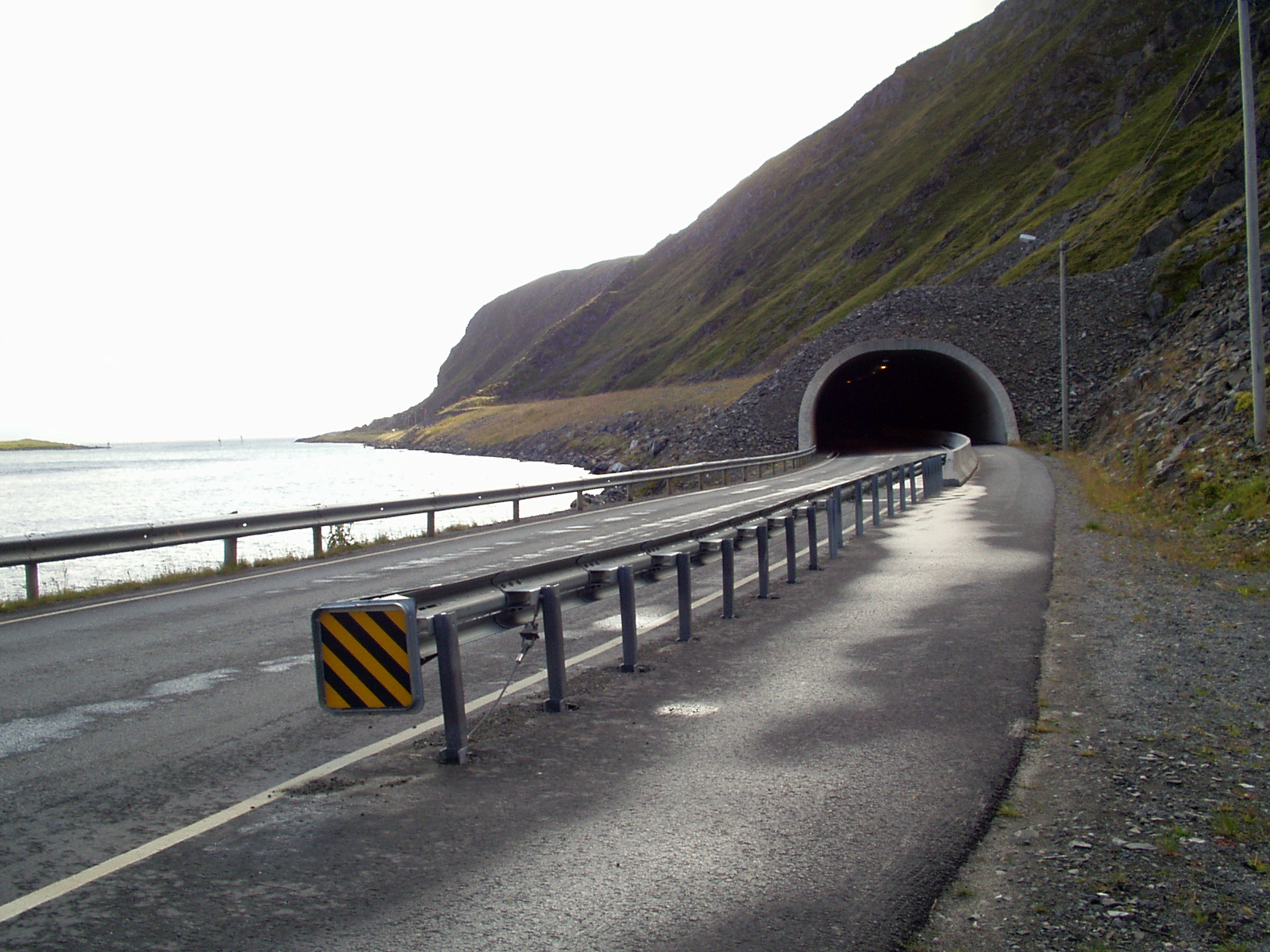 The north entrance of Nordvågentunnelen.